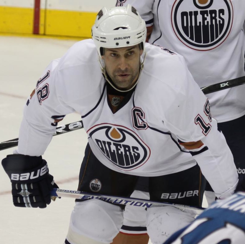 Edmonton Oilers at Colorado Avalanche, 2/6/10 @ Pepsi Center, Denver CO USA